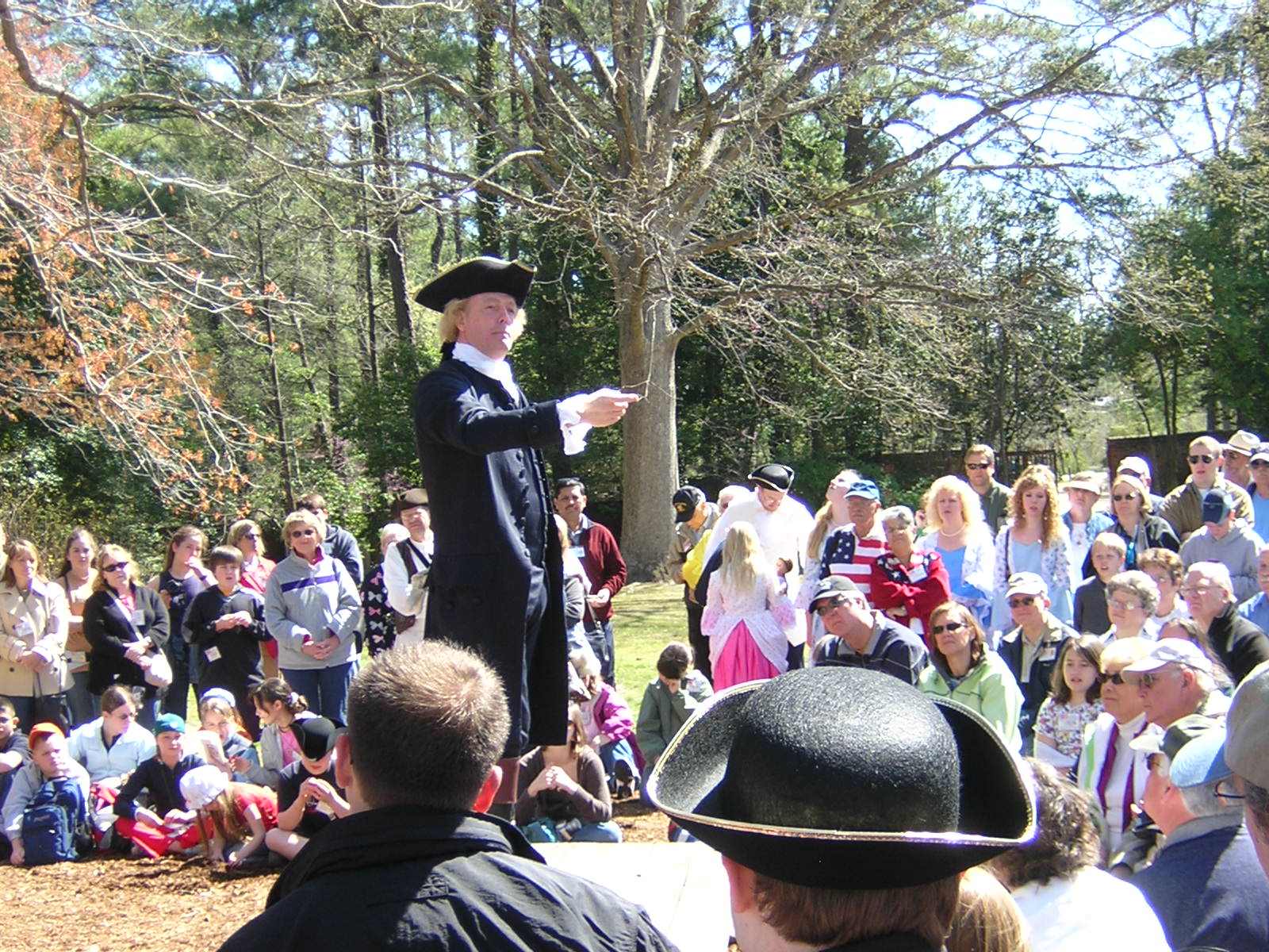 An actor portrays Wikipedia:Thomas Jefferson giving a speech in the garden of the Wikipedia:Governor's Palace at Wikipedia:Colonial Williamsburg.